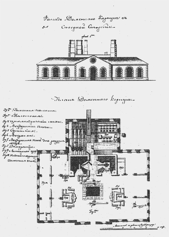 The front and plan of blast-furnace foundry of Lugansk plant.